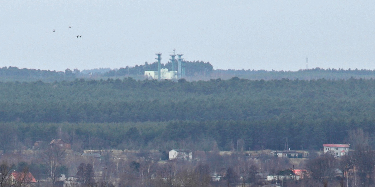 BARS Station no 204 in Chorągiewka near Toruń, Poland.